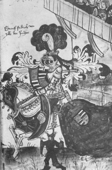 Frederic II. of Cilli, tournir at Constance (20th march 1415), at the time of Council of Constance (1414-1418). Richental Ulrich, Dacher Gebhard: Chronik des Konstanzer Konzils nach Ulrich Richental. Prague Manuscript, Cod XVI A 17, fol. 31a. Prague.